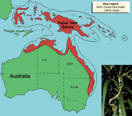 Rangemap for the Brown tree snake (Boiga irregularis)